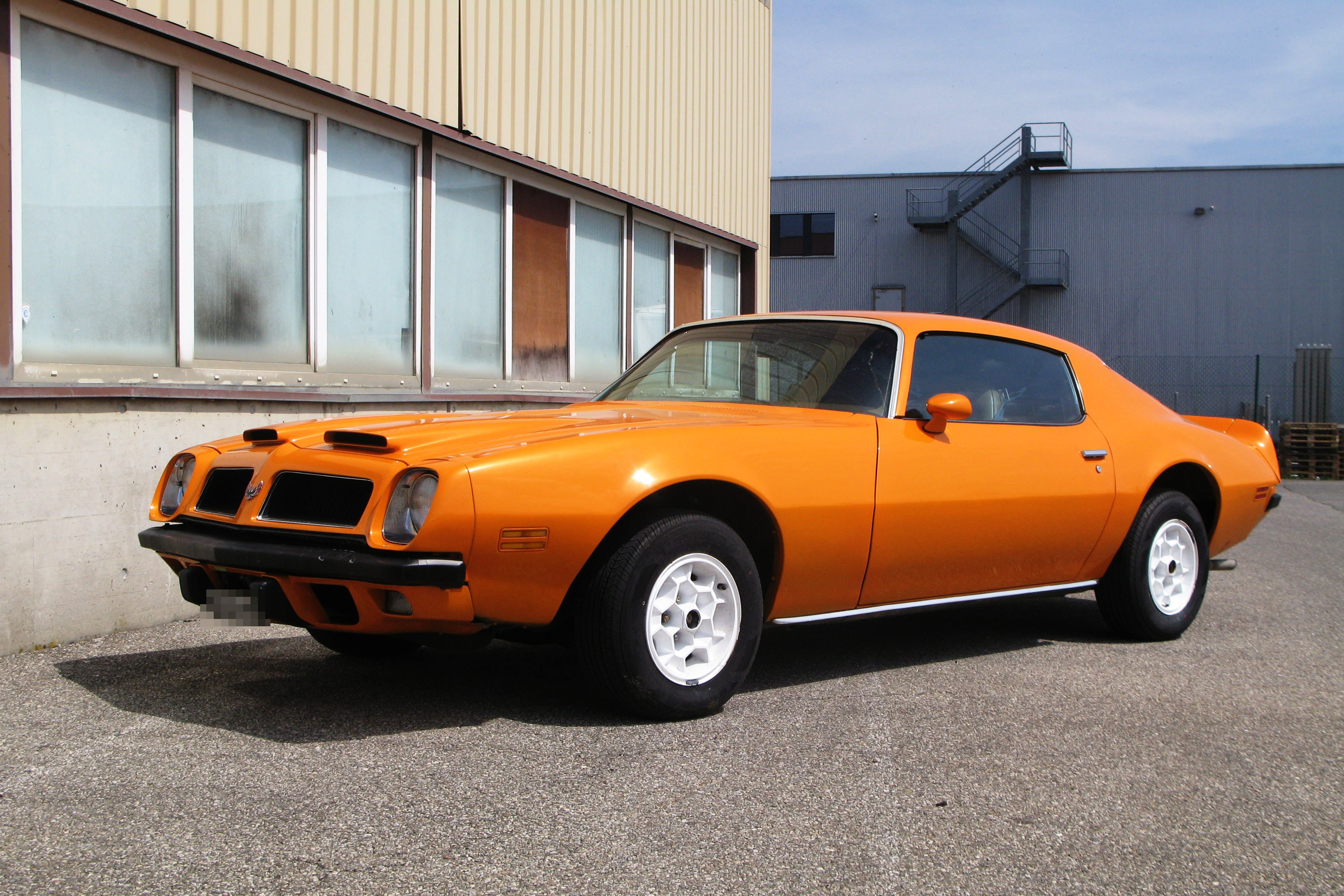 Pontiac Firebird, second generation